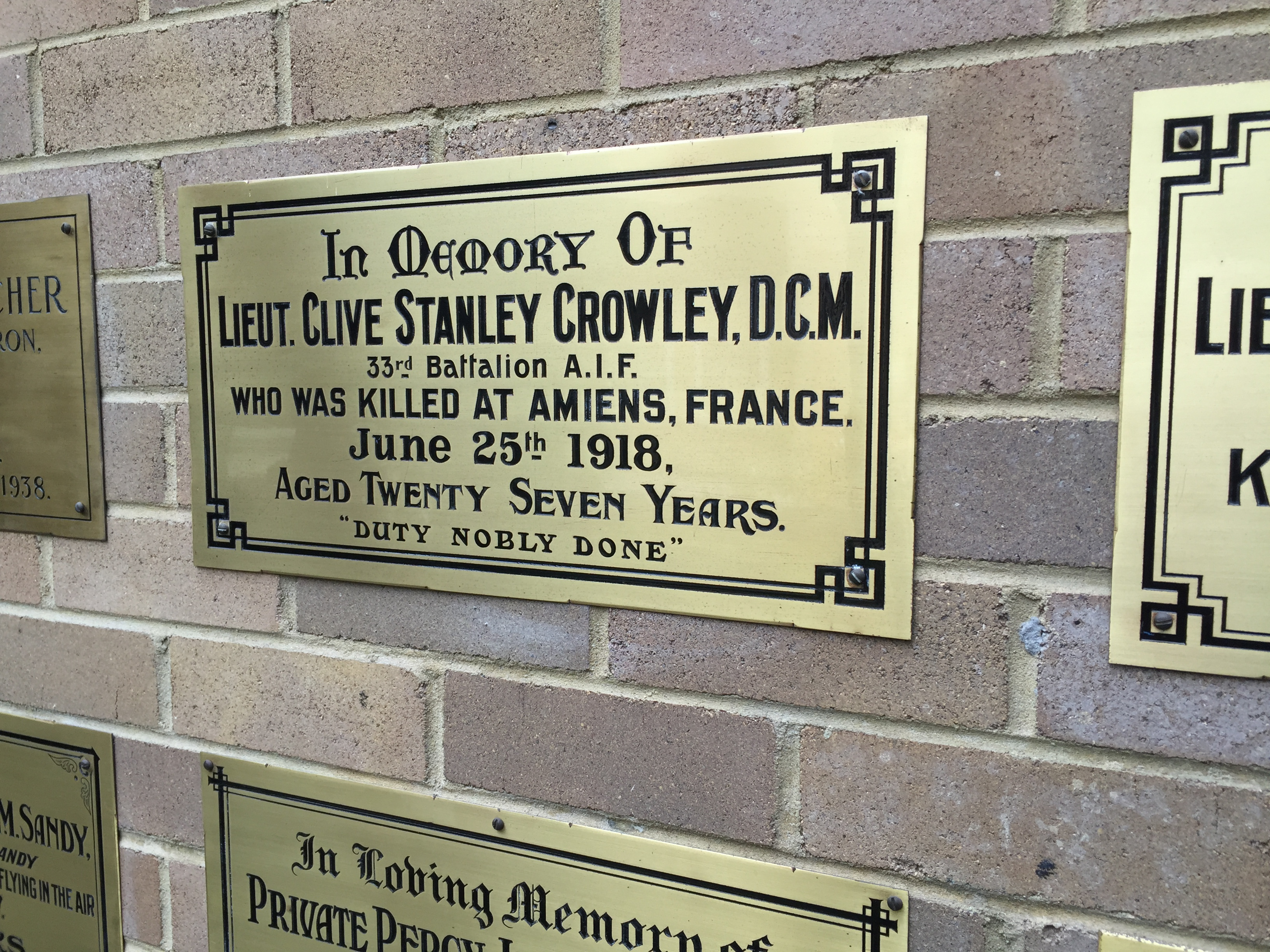 Memorial plaque for Lieut. Clive Stanley Crowley, D.C.M. In the Newington College Chapel.